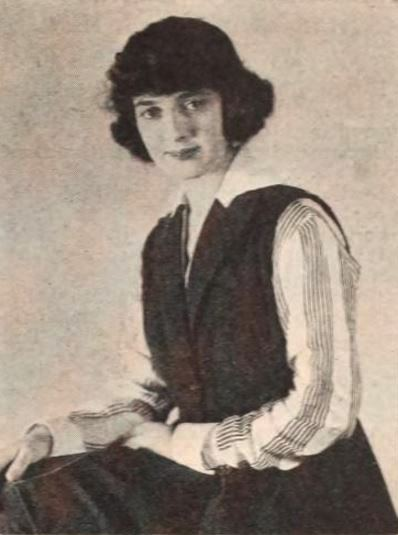 Still from the American film serial Velvet Fingers (1920) with Marguerite Courtot, on page 81 of the November 13, 1920 Exhibitors Herald.